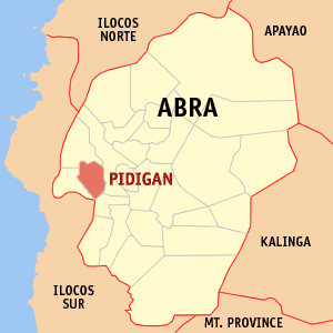 Map of Abra showing the location of Pidigan